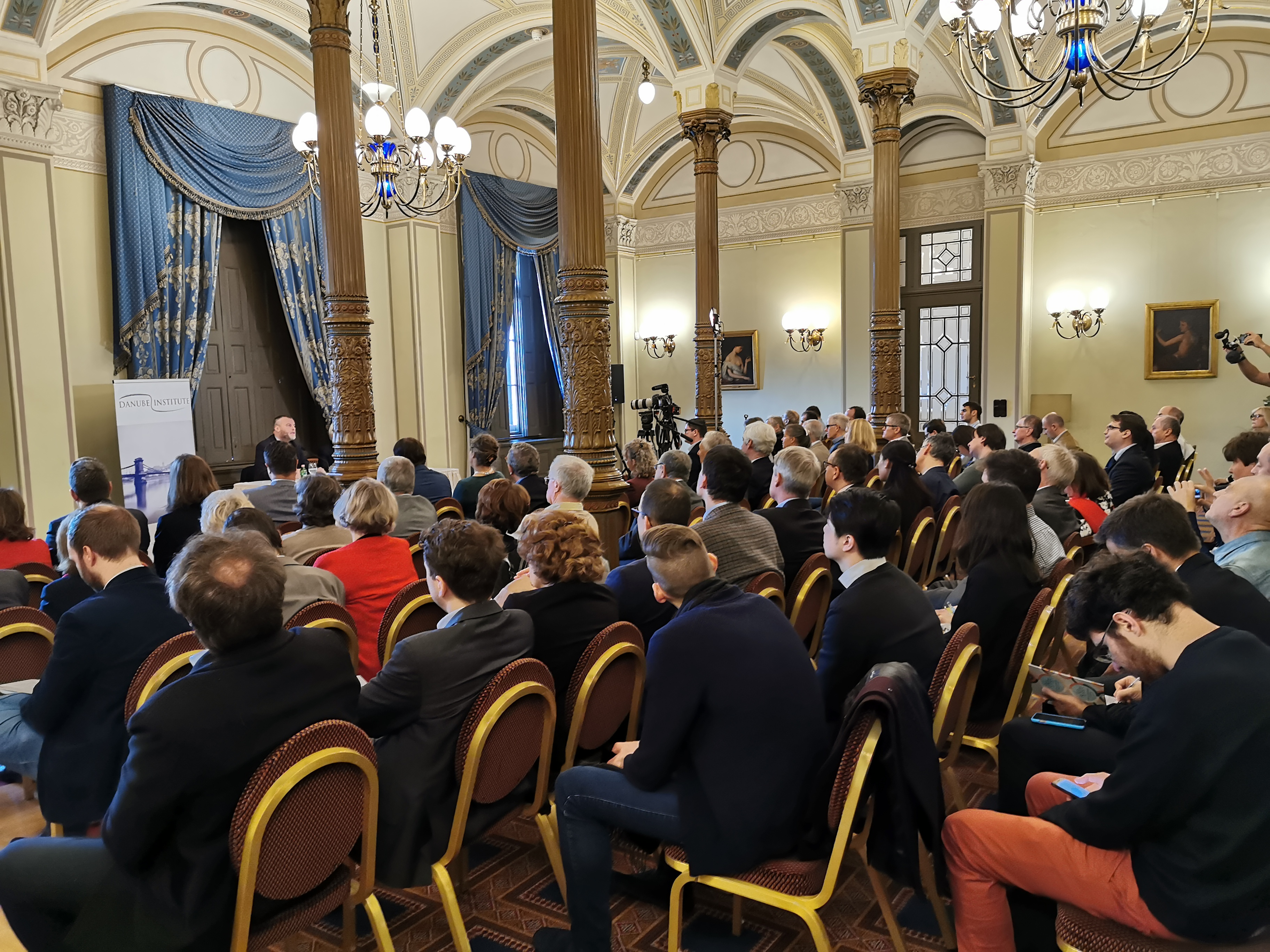 Tim Montgomerie - Parliamentary Elections in the UK - An Assessment. Taken on the 17th of December, 2019. Danube Institute. At the Hungarian Academy of Sciences, Budapest, Hungary.